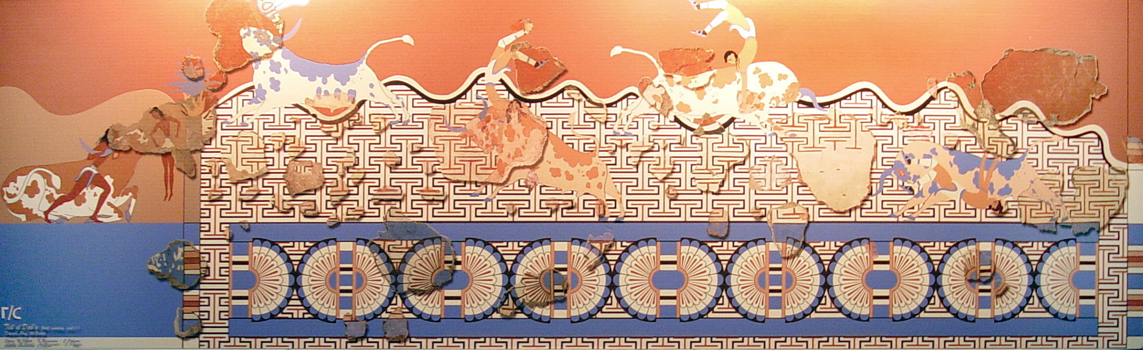 Reconstructed Minoan Fresco from Avaris, Egypt. Now Archaeological Museum Iraklion, Crete, Greece.